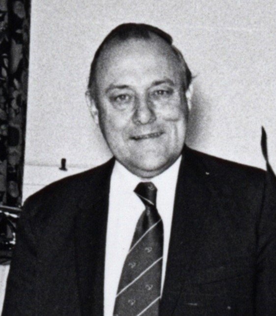 "PM Has Super Day" - Muldoon Celebrates 60th Birthday (1981) - AAXO 8029 W4742 33/132